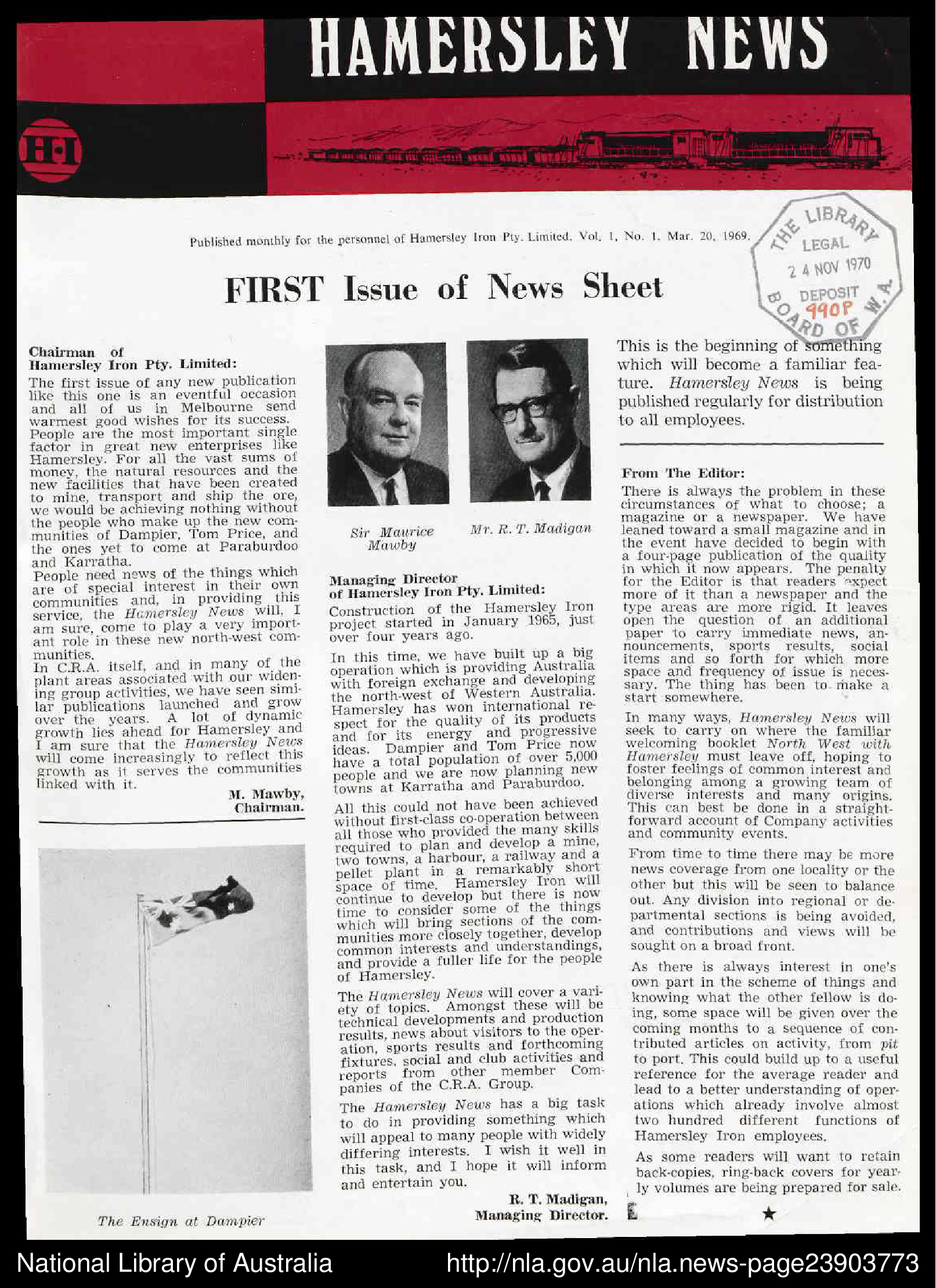 Front cover of the first issue of the Hamersley News